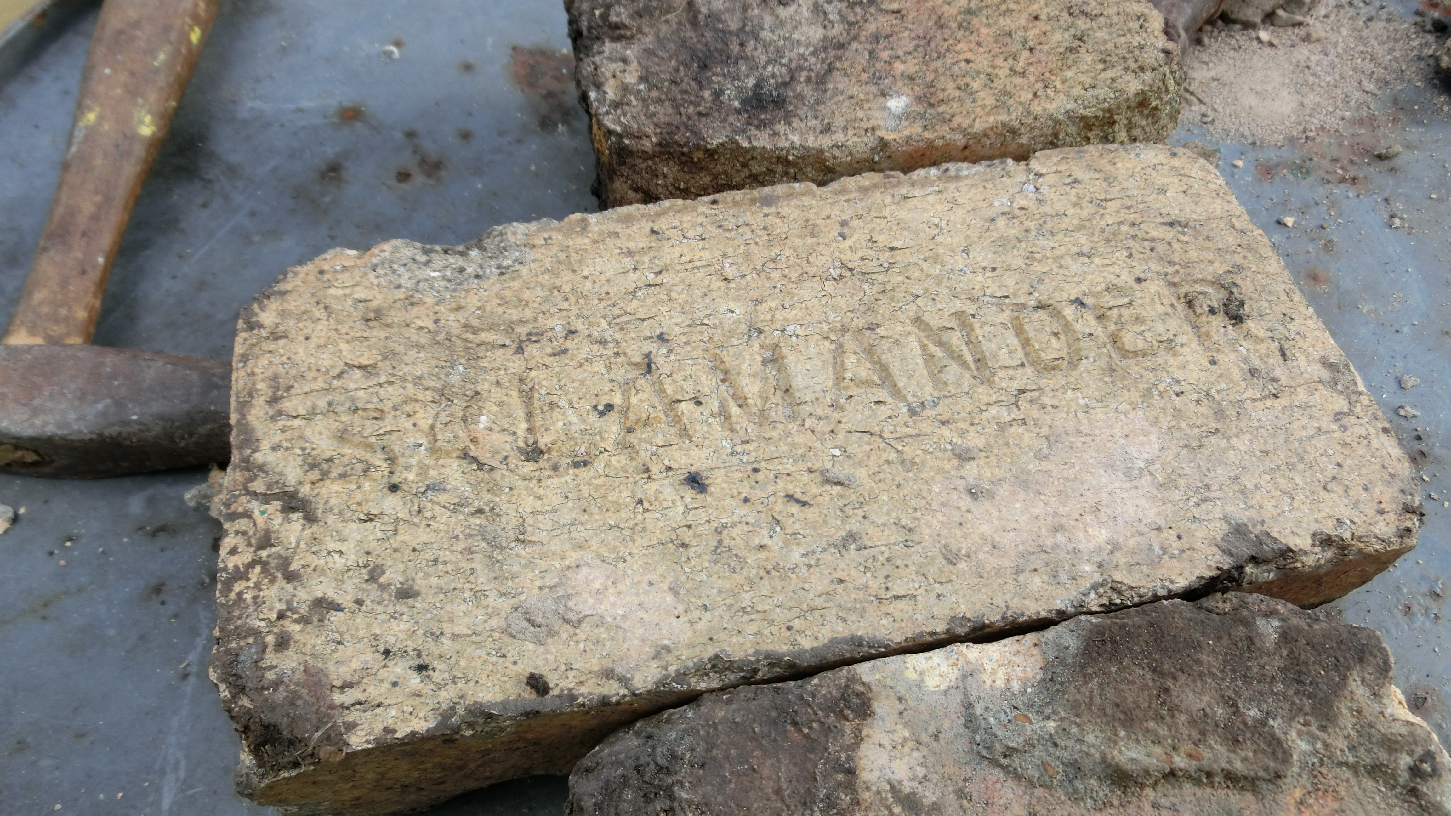 Salamander Fire Works refractory brick found in illinois, manufactured in Woodbridge New Jersey some time in the 1800s.